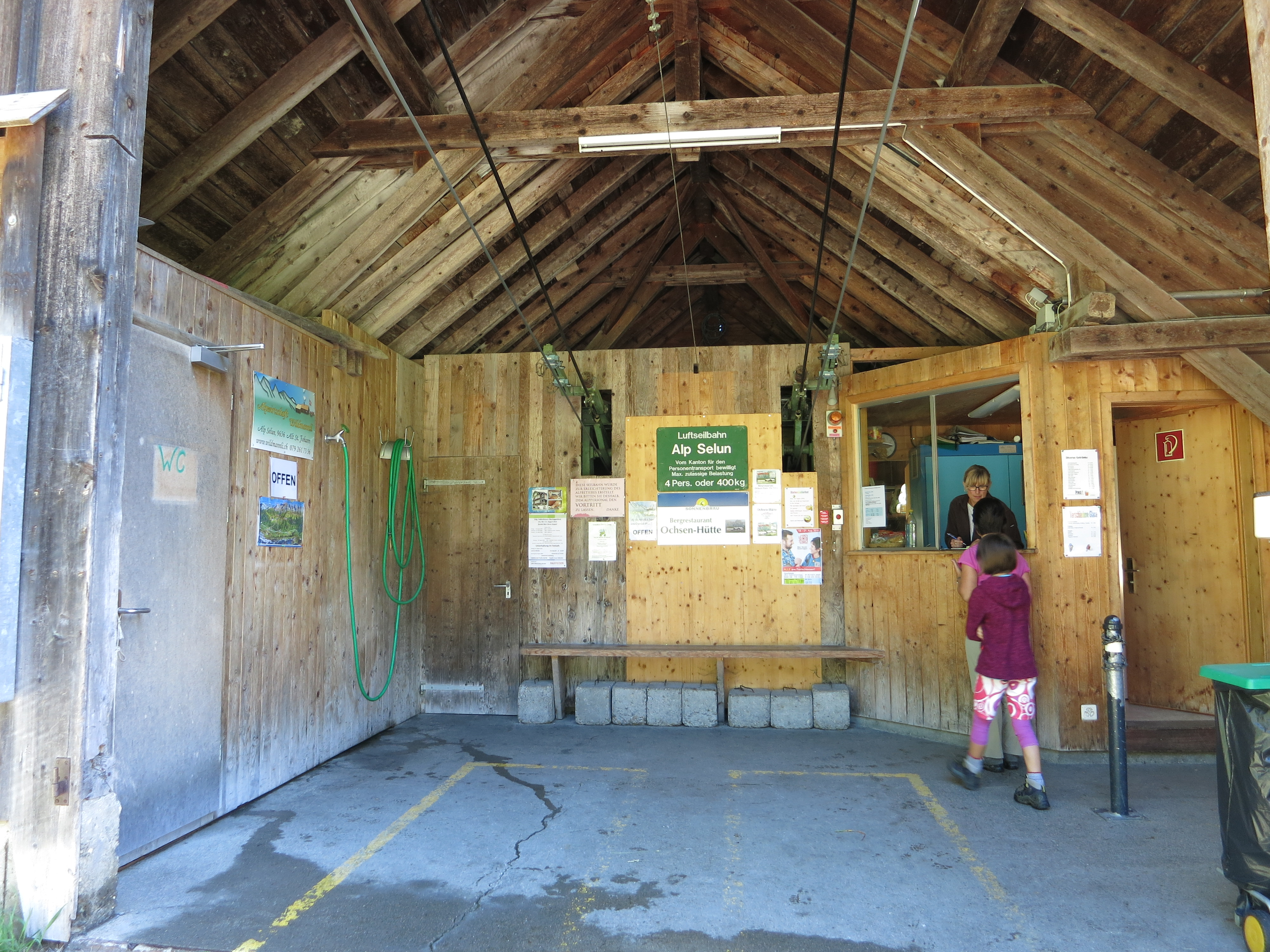 Cablecar Selunbahn in Switzerland: In the valley